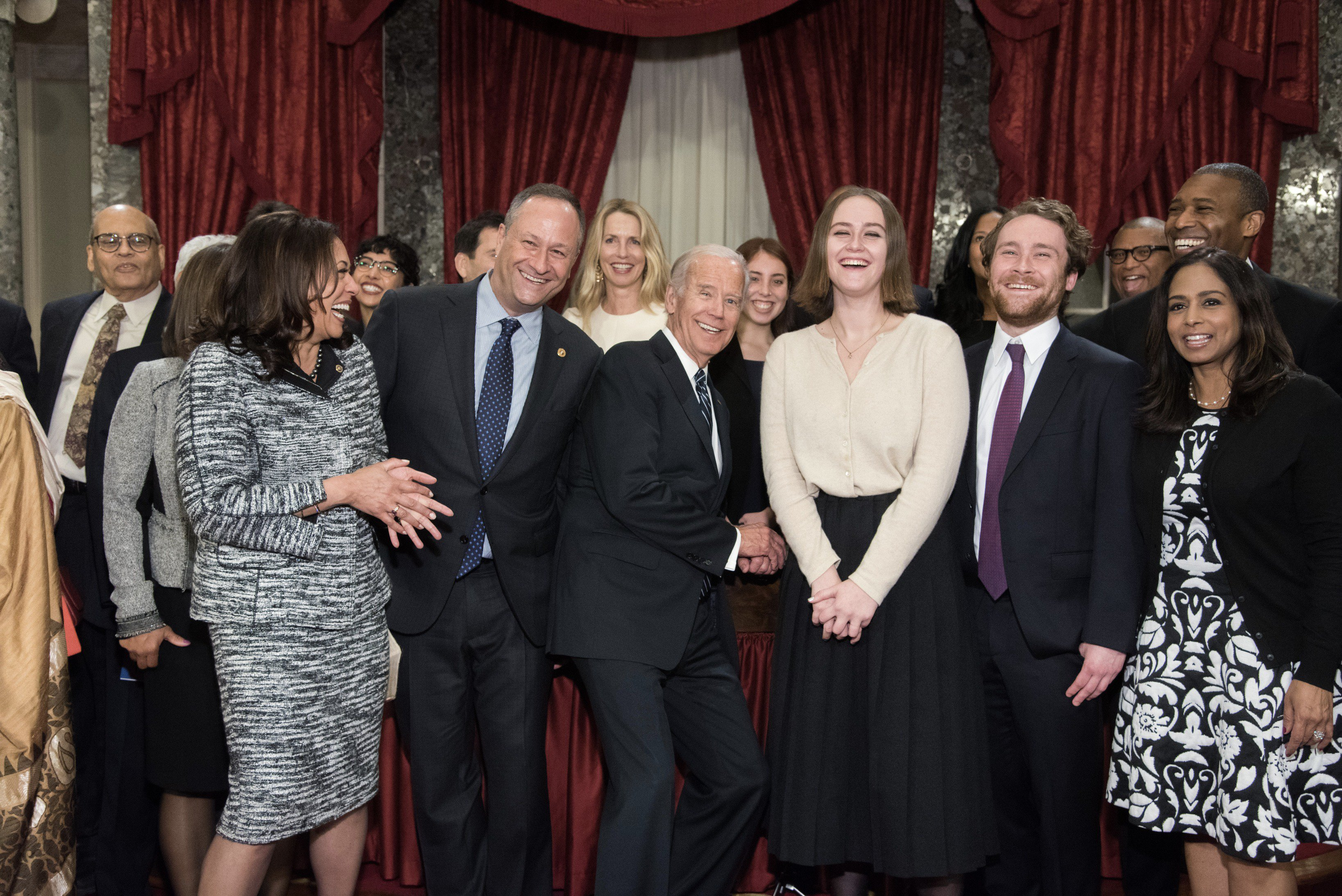 Happy 75th Birthday to @JoeBiden!